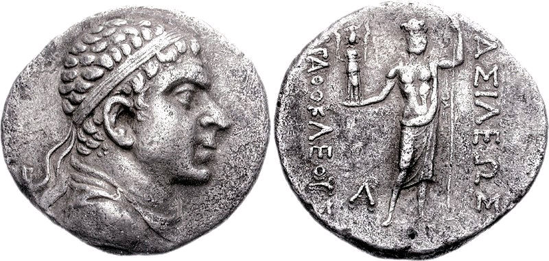 Agathokles middle-aged